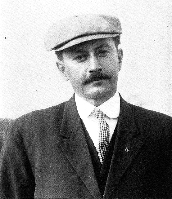 Photograph of Alvin Kraenzlein